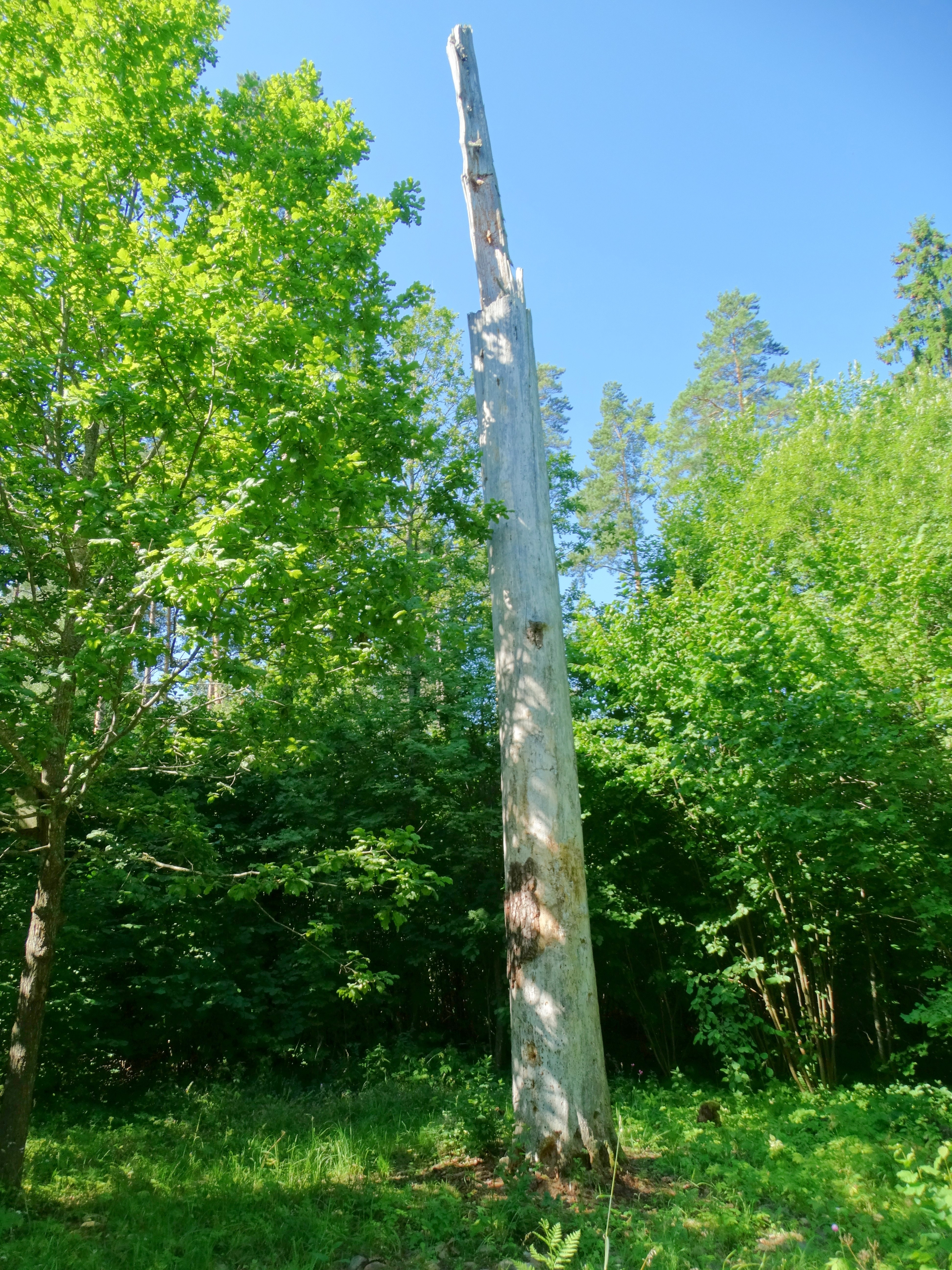 Liaudiškiai pine tree, Radviliškis District, Lithuania